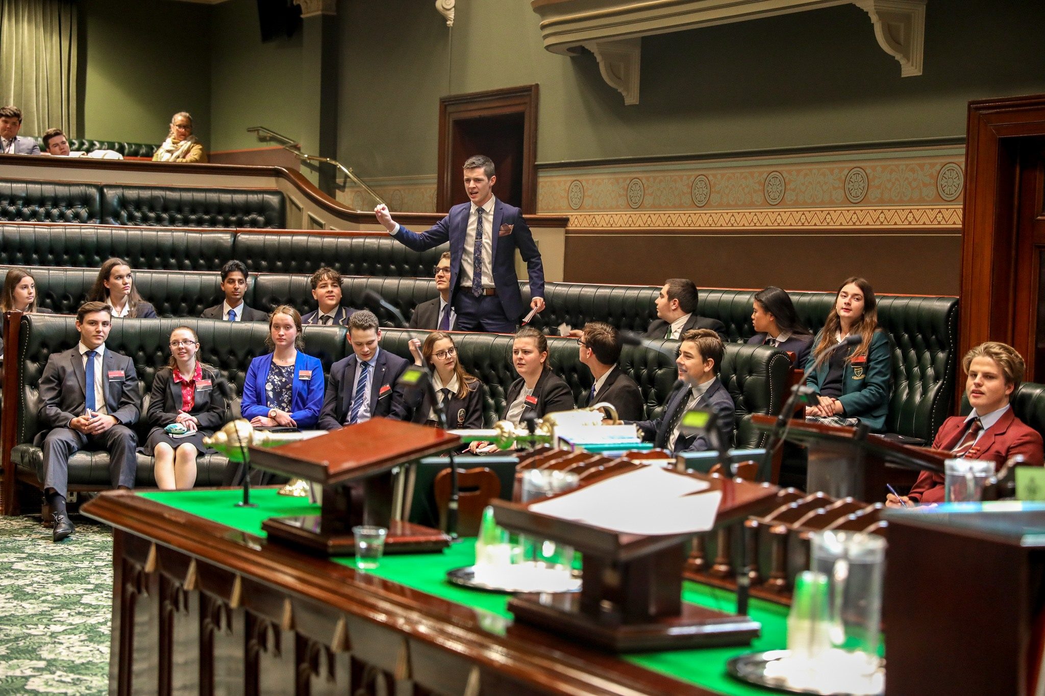 A photo taken during the 2019 YMCA NSW Youth Parliament with a backbench MP speaking